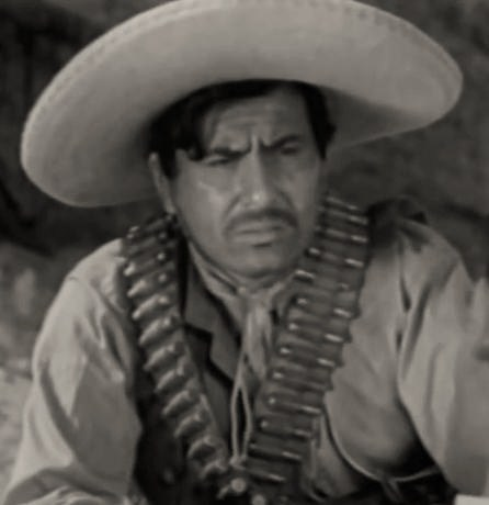 Rico Alaniz in the TV series 26 Men, episode Border Incident (cropped screenshot)